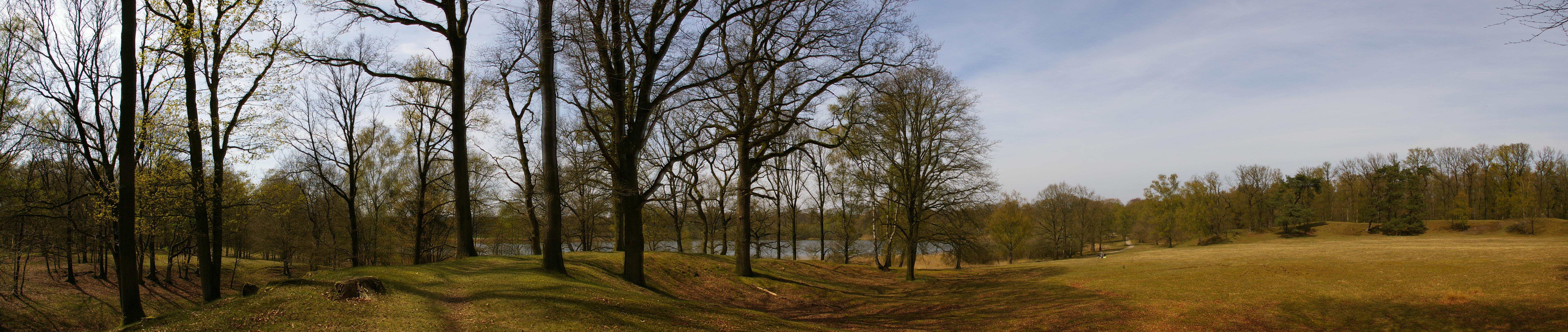 Uddelermeer, a small lake near Uddel, Gelderland, the Netherlands.